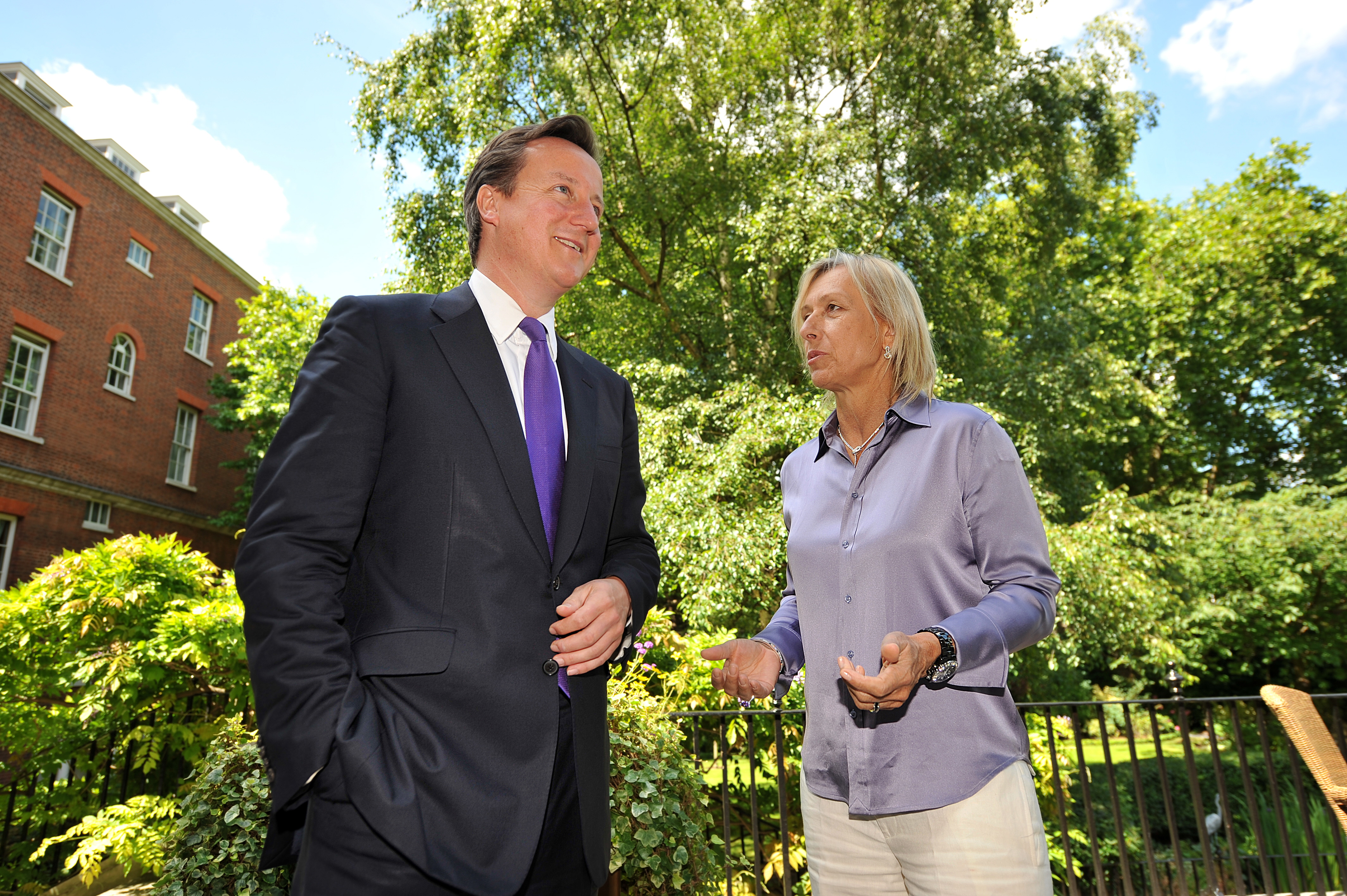 Martina Navratilova visits No10 to sign the Charter for Action to tackle homophobia and transphobia in sport.